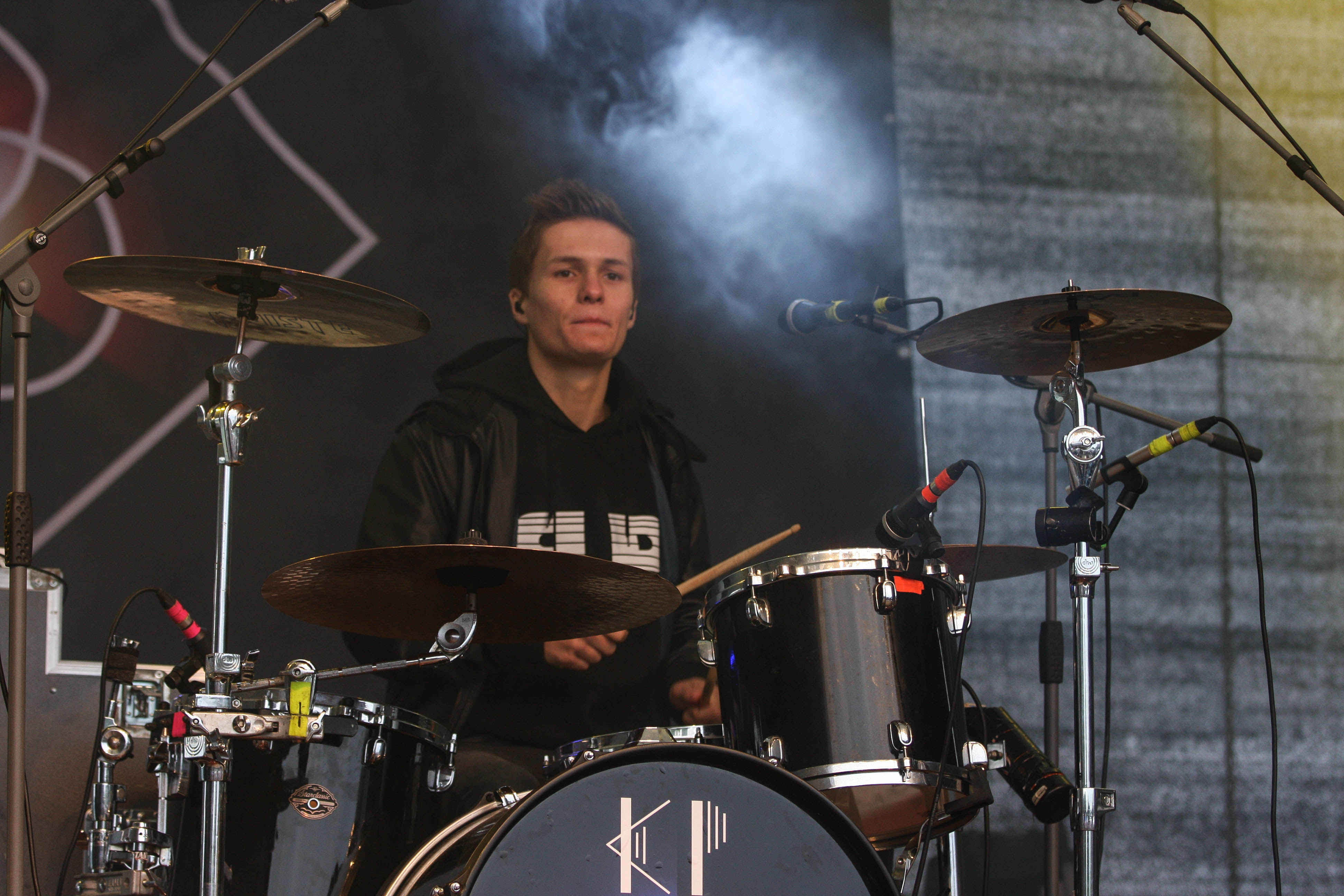 Festivalsommer This photo was created with the support of donations to Wikimedia Deutschland in the context of the CPB project "Festival Summer".